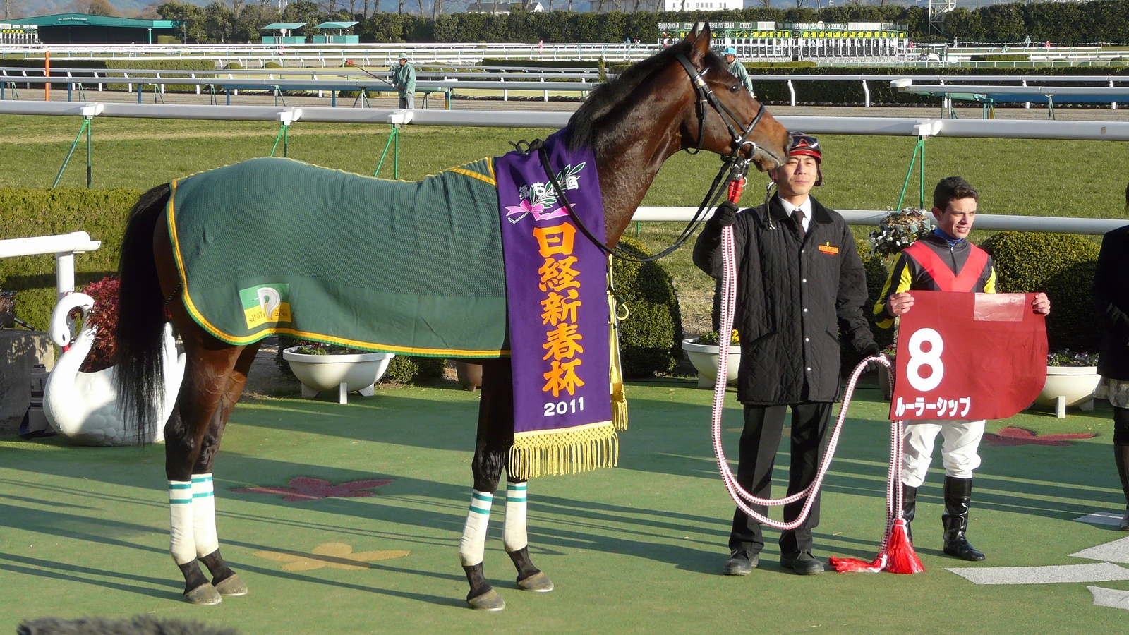 Rulership20110116